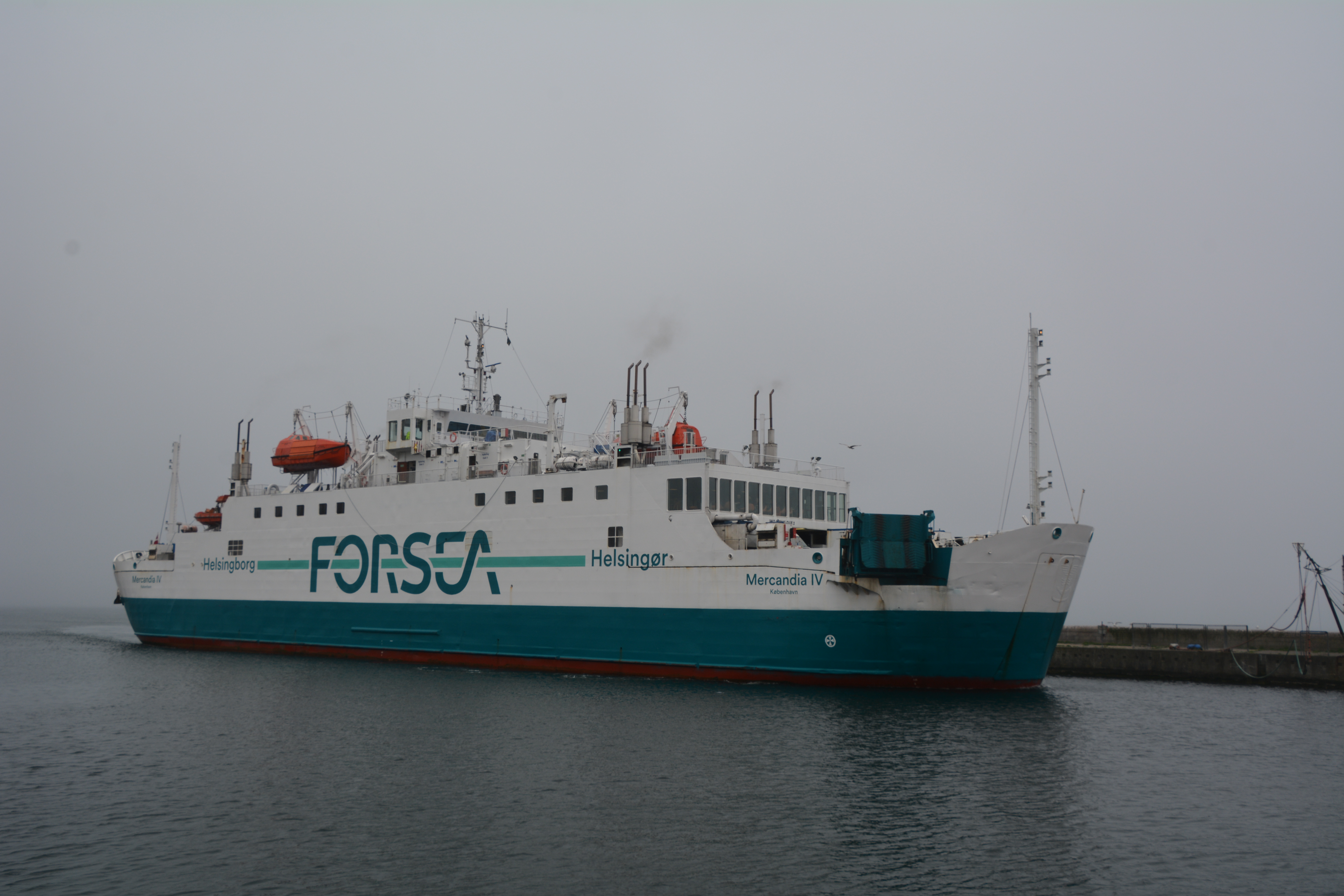 MS Mercandia IV, Forsea ferry, entering the Helsingör harbour